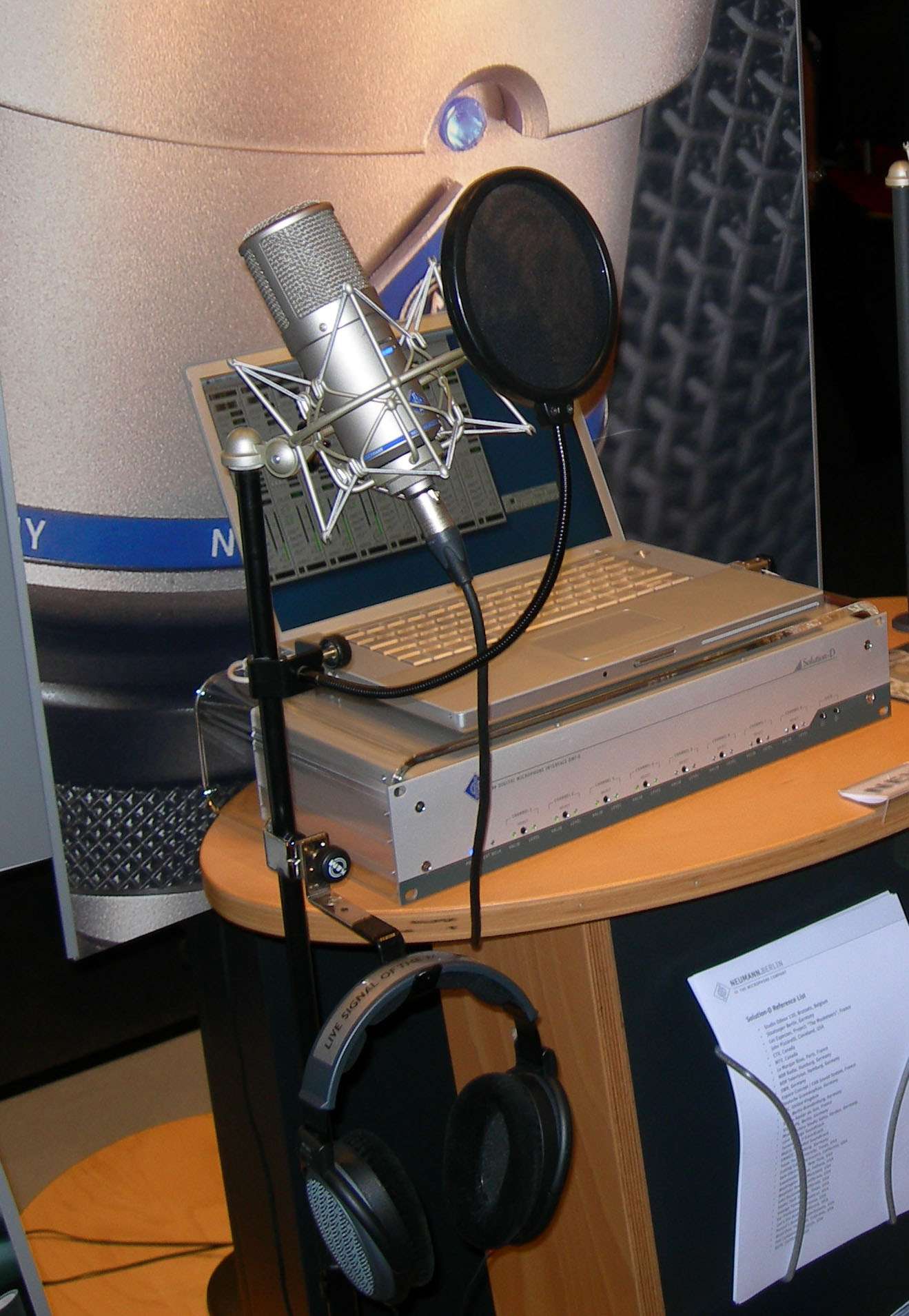 Neumann D-01 digital microphone and Neumann DMI-8 8-channel USB Digital Microphone Interface. IBC 2008, Amsterdam